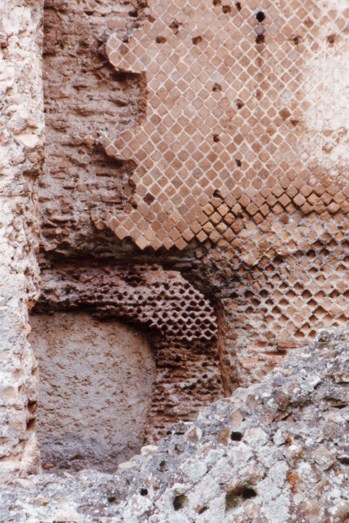 Opus reticulatum at Villa Adriana, Tivoli, Italy